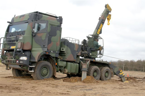 DAF YBB-95.480 army recovery vehicle with extended stabilization legs